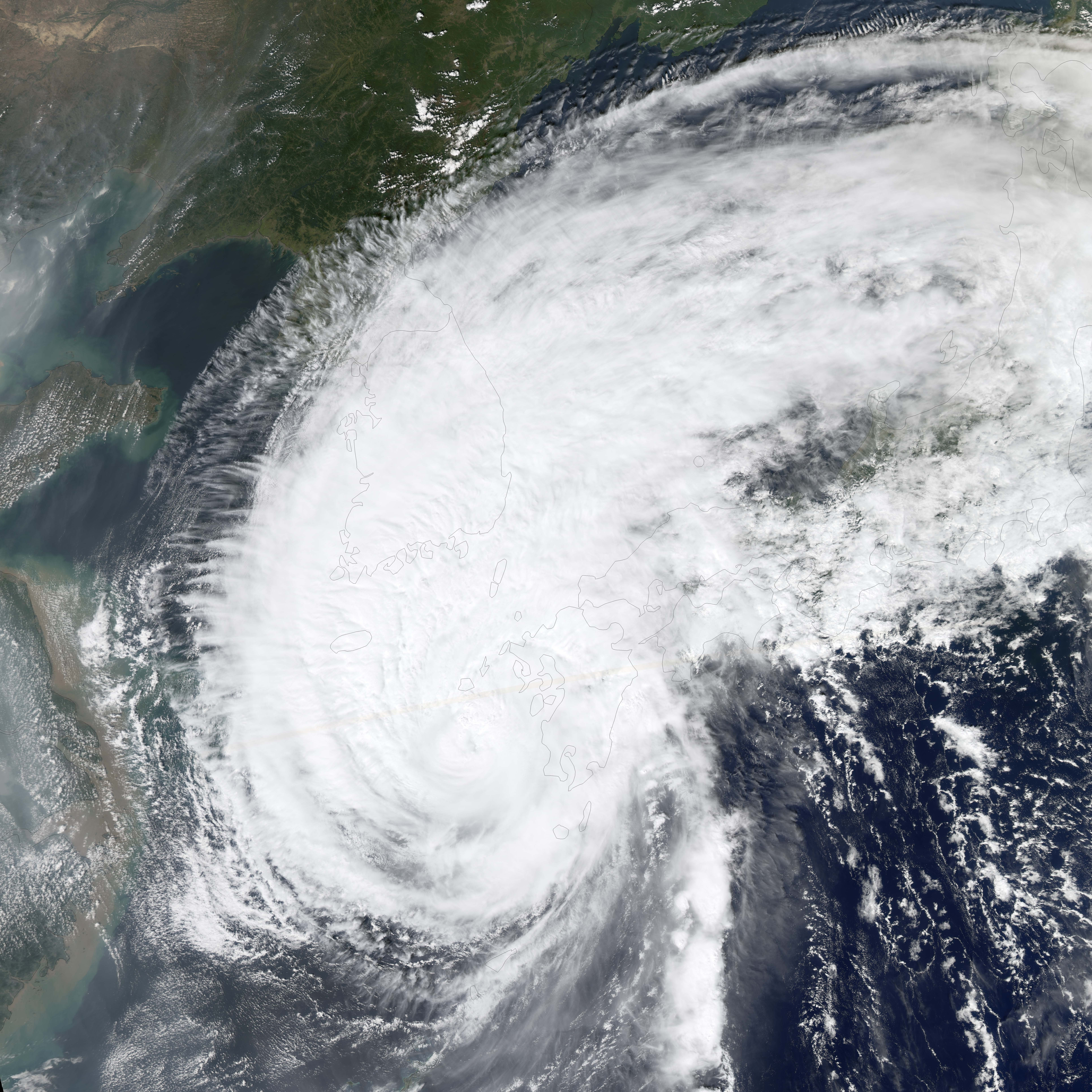 Typhoon Shanshan formed on September 10, 2006, in the western Pacific off the coast of the Philippine Islands. Over the course of the next 36 hours, it grew from a tropical depression (area of low air pressure) to a typhoon, reaching Category 4 strength as it passed Taiwan on September 15. Typhoon Shanshan stayed at Category 4 (a Super Typhoon) for two days, starting to subside only late in the day on September 16. As of September 19, the typhoon was projected to pass on a northeasterly track through the straits between the Korean Peninsula and southern Japan, and to curve east to cross Hokkaido. This photo-like image was acquired by the Moderate Resolution Imaging Spectroradiometer (MODIS) on the Aqua satellite on September 18, 2006, at 1:25 p.m. local time (04:25 UTC). Shanshan at the time of this image had a well-defined spiral shape, with a distinct but cloud-filled (“closed”) eye. Shanshan had sustained winds of around 140 kilometers per hour (85 miles per hour) at the time this satellite image was acquired, according to the University of Hawaii’s Tropical Storm Information Center. Though no longer a super typhoon by this time, Agence France Presse reported nine deaths in southern Japan attributed to the storm, as well at least 310 injuries, and one person missing. Risks for landslides, flooding, and strong storm surge along the western coast were expected to remain high as the storm traveled near the western coastline.